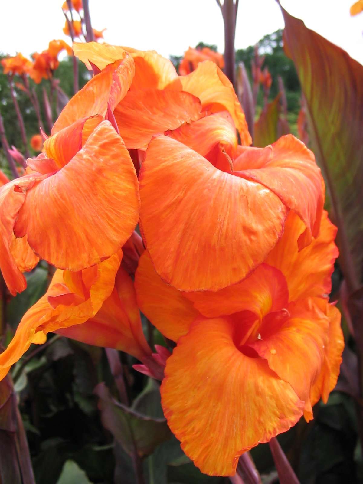 Canna ×generalis Flower at Kew GardensKew